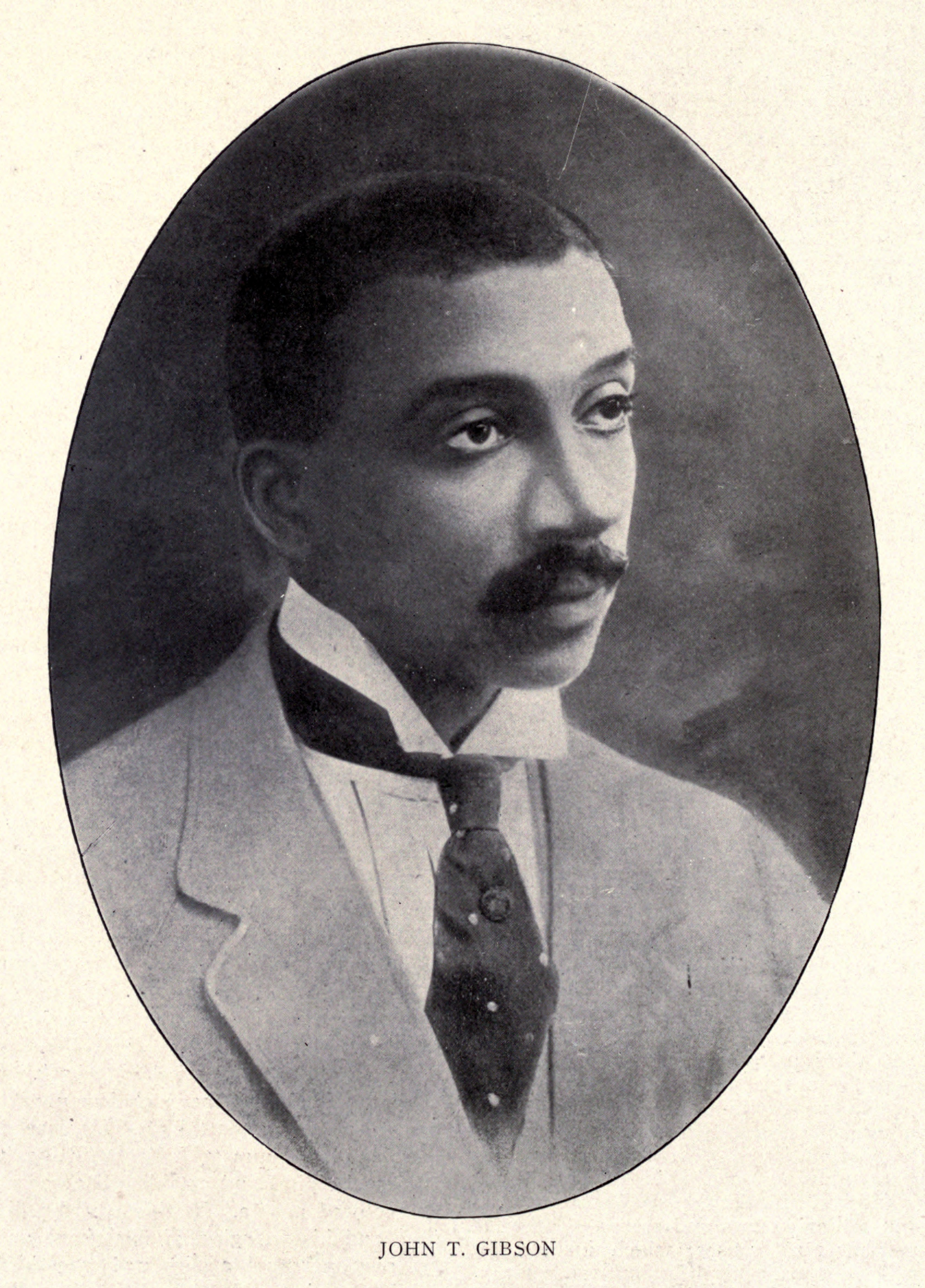 John T. Gibson, Standard Theatre, Philadelphia PA (1919) From The National Cyclopedia of the Colored Race, Editor-in-Chief Clement Richardson (1919) National Publishing Co., Inc. Montgomery AL (